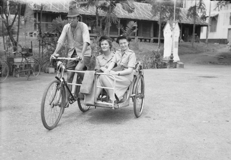 Title: THE ROYAL AIR FORCE IN THE FAR EAST 1945–1946 Collection No.: 4700-15 Description: Sisters Joan Goodband and Pat Hughes of 81 Mobile Field Hospital take a trishaw ride during their off-duty hours. 81 Mobile Field Hospital at Seletar, Singapore, was the first Royal Air Force hospital established after the Japanese surrender.